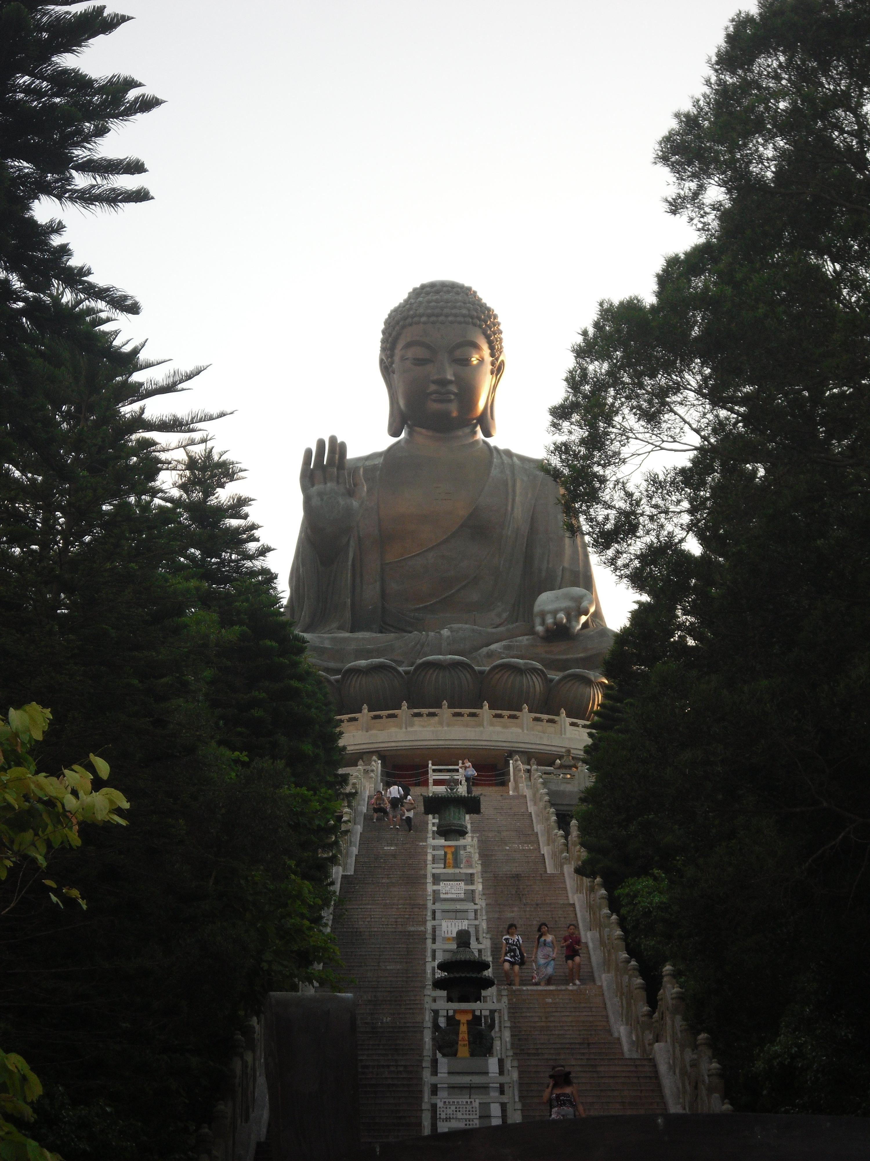 Tian Tan Buddha, also known as the “Big Buddha”, at Ngong Ping, Lantau Island, in Hong Kong.